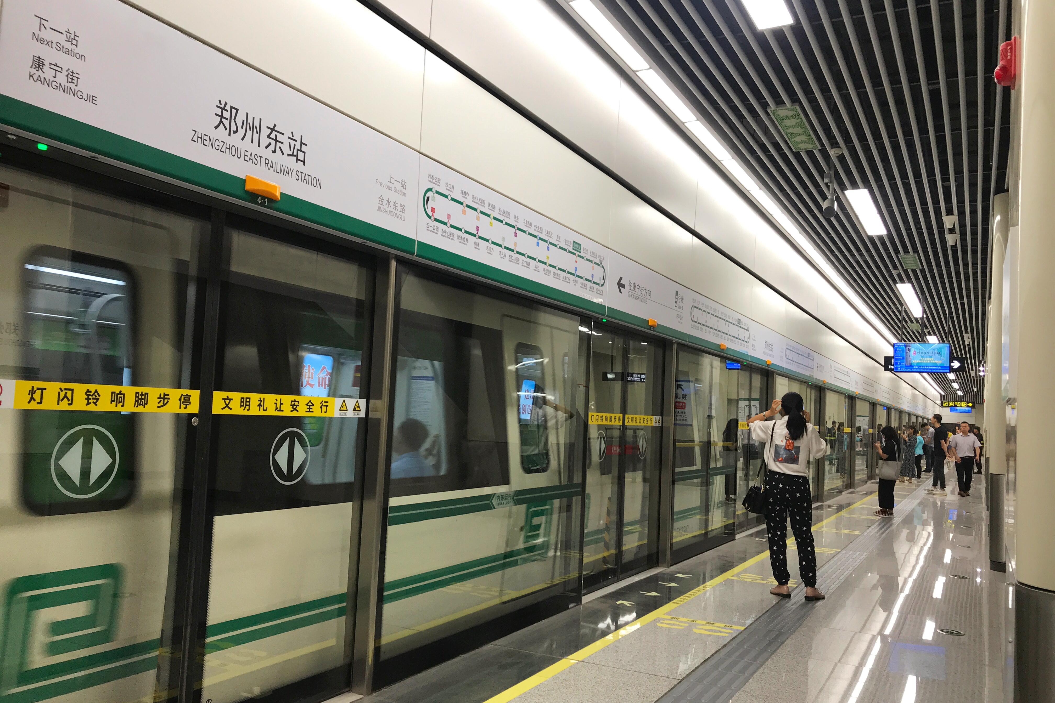 Platform of Line 5 at Zhengzhou East Railway Station (Metro)